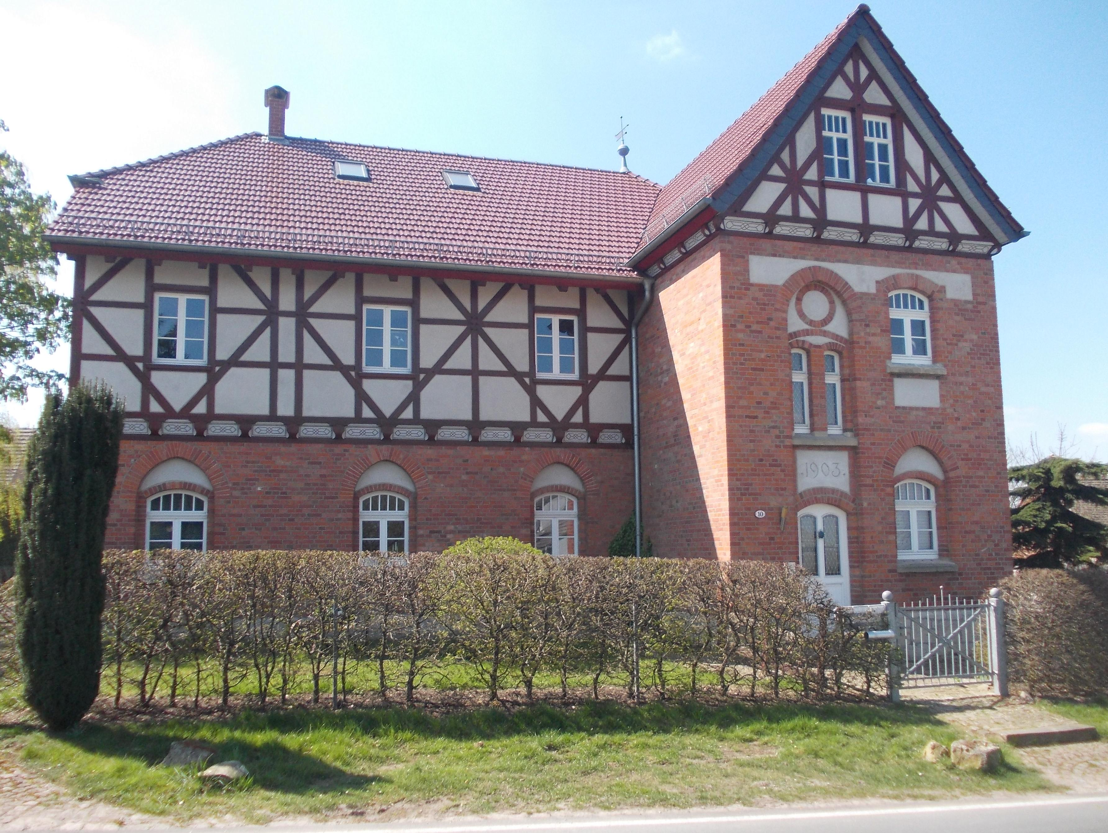 Guesthouse in Kukulau (Naumburg, district: Burgenlandkreis, Saxony-Anhalt)